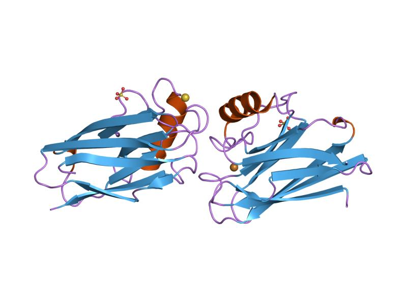 Cartoon representation of the molecular structure of protein registered with 2aza code.